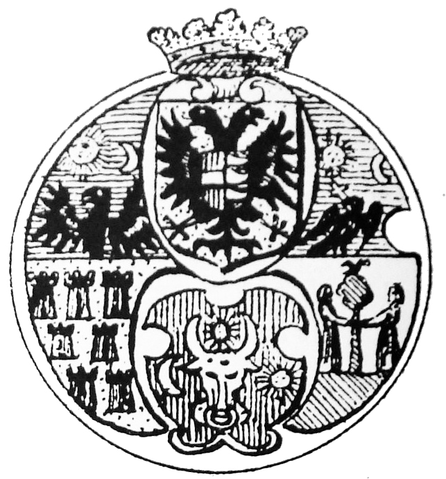 United Coat of arms of prince Sigismund Bathory